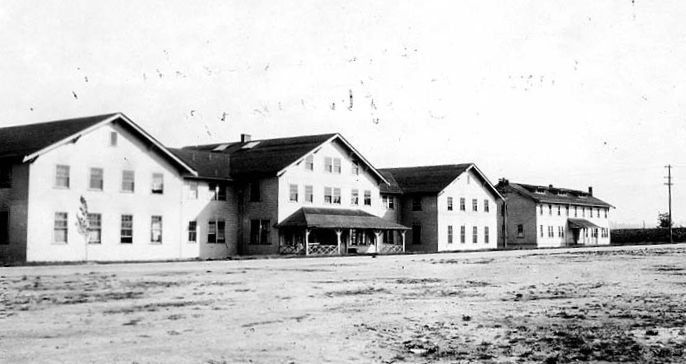 From John Cobb field notebook: Lander and Terry Halls, Univ. of Wash. 1922 Subjects (LCTGM): Dormitories--Washington (State)--Seattle Subjects (LCSH): Lander Hall (Seattle, Wash.); Terry Hall (Seattle, Wash.); University of Washington